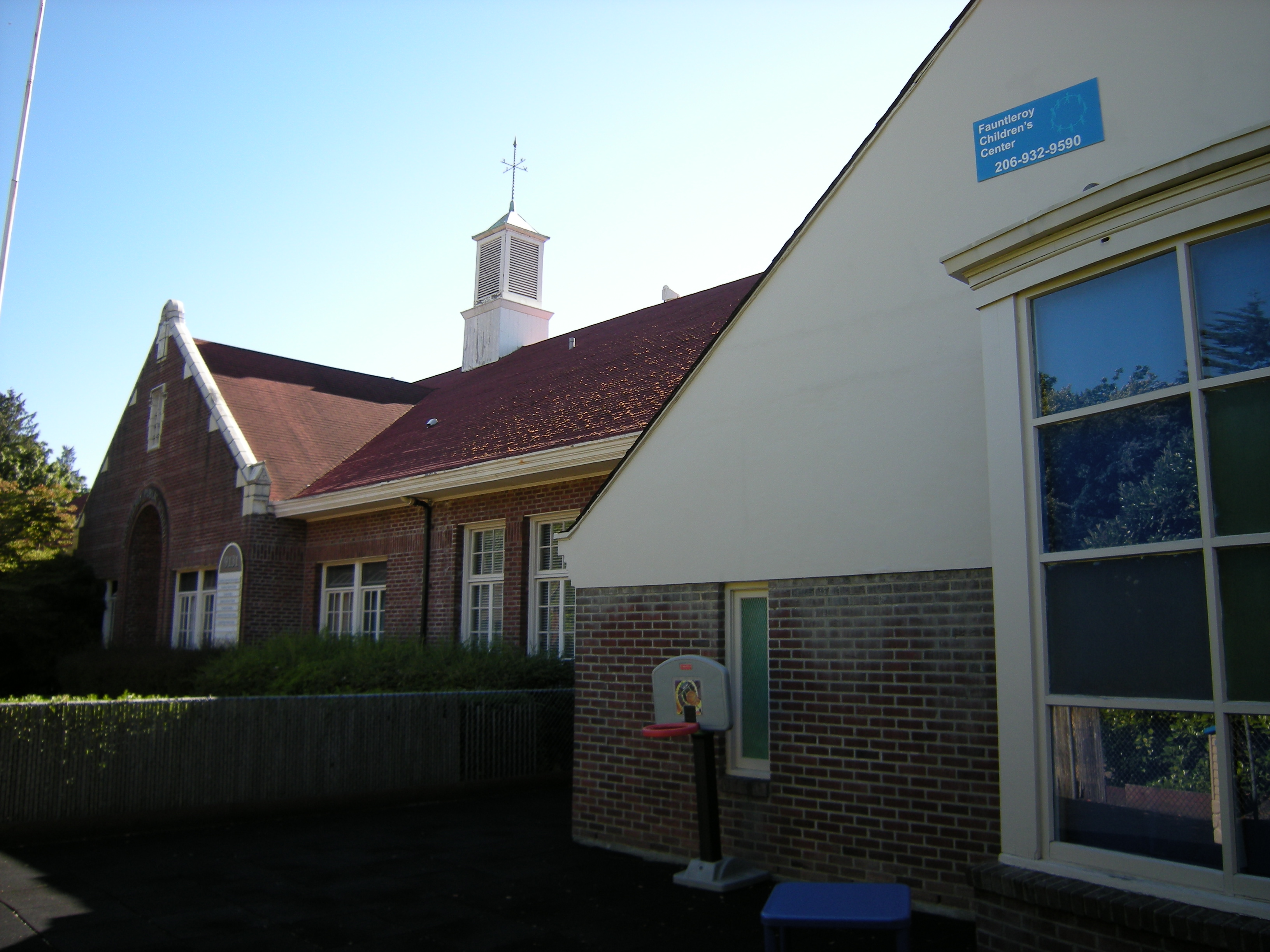 The former Fauntleroy School, 9131 California Ave. S.W., Seattle, Washington in West Seattle's Fauntleroy/Endolyne neighborhood now houses The Hall At Fauntleroy (the former school auditorium), the Fauntleroy Children's Center, and several other institutions and businesses.